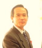 Gaku Kamiya